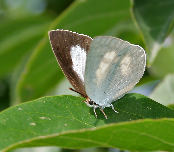 Indian Sunbeam Curetis thetis in Hyderabad , India.